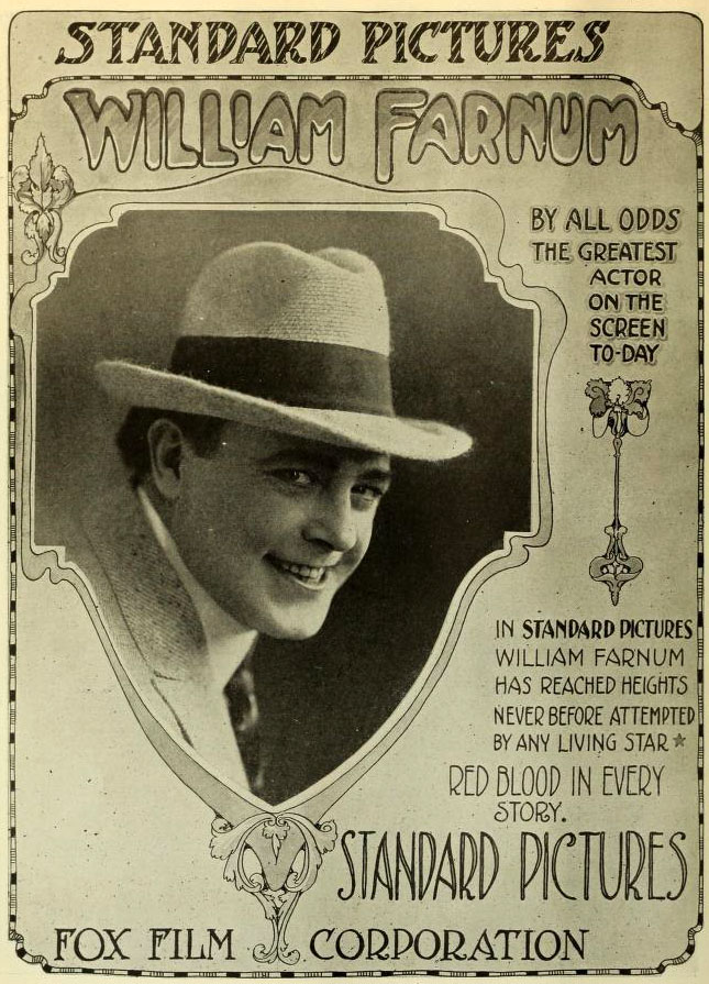 Advertisement in Moving Picture World, Aug 1917